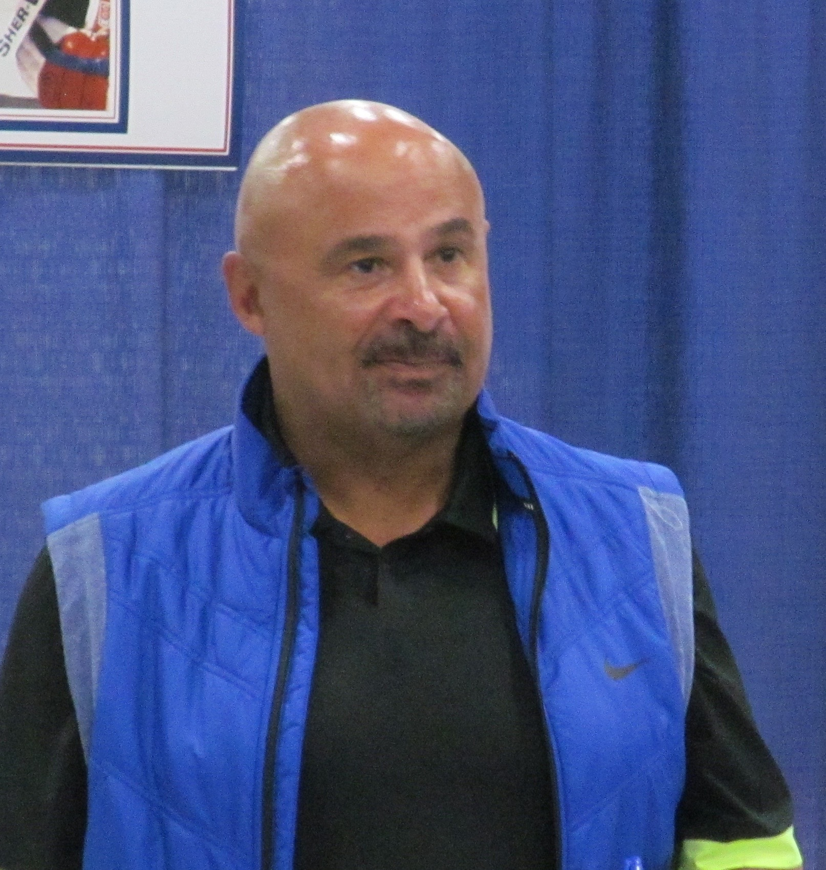 Grant Fuhr at an Autograph Show in Oaks PA 2015-10-31